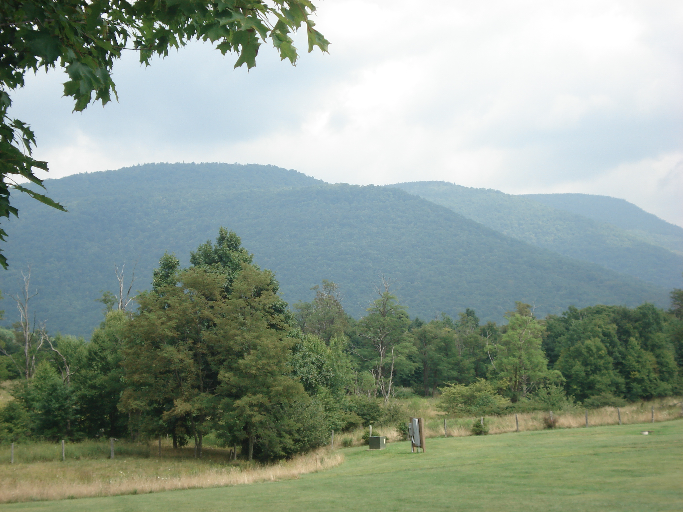 Back Allegheny Mountain, West Virginia (Photo taken from Whittaker Station on Cass Scenic Railroad)